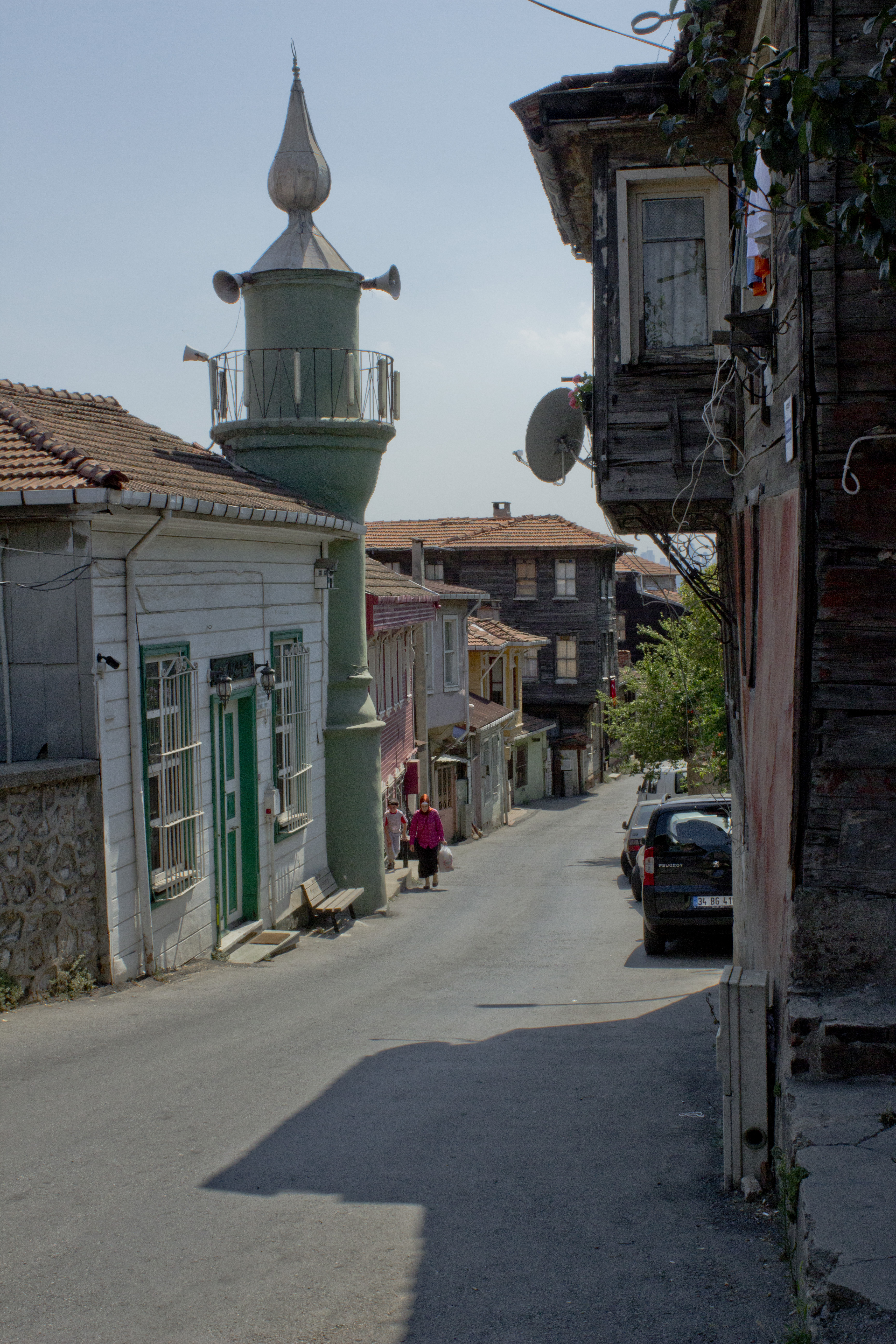 A street in Beykoz